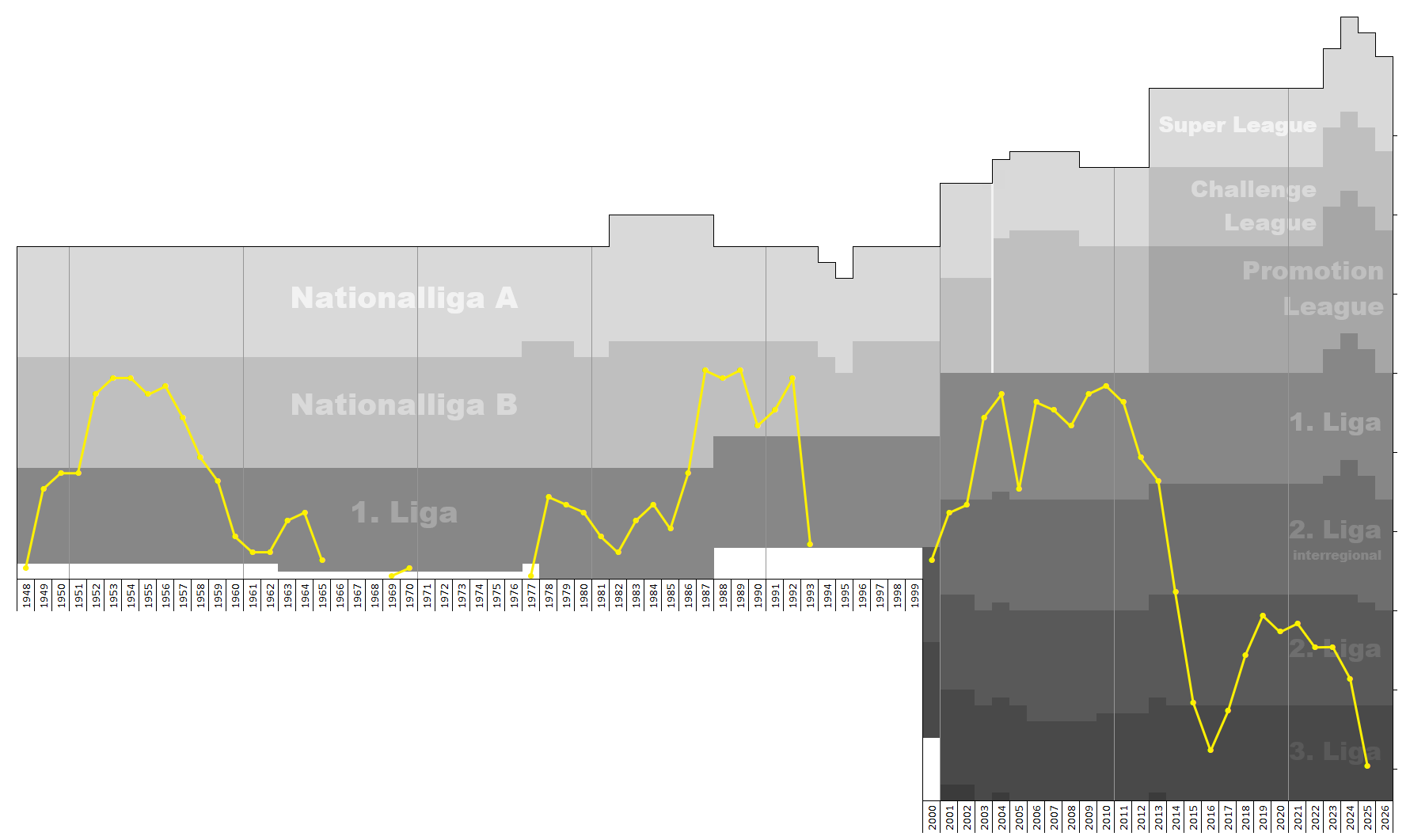 Chart of end-season table positions of ES FC Malley in the Swiss football league system. Data source: RSSSF, , football.ch